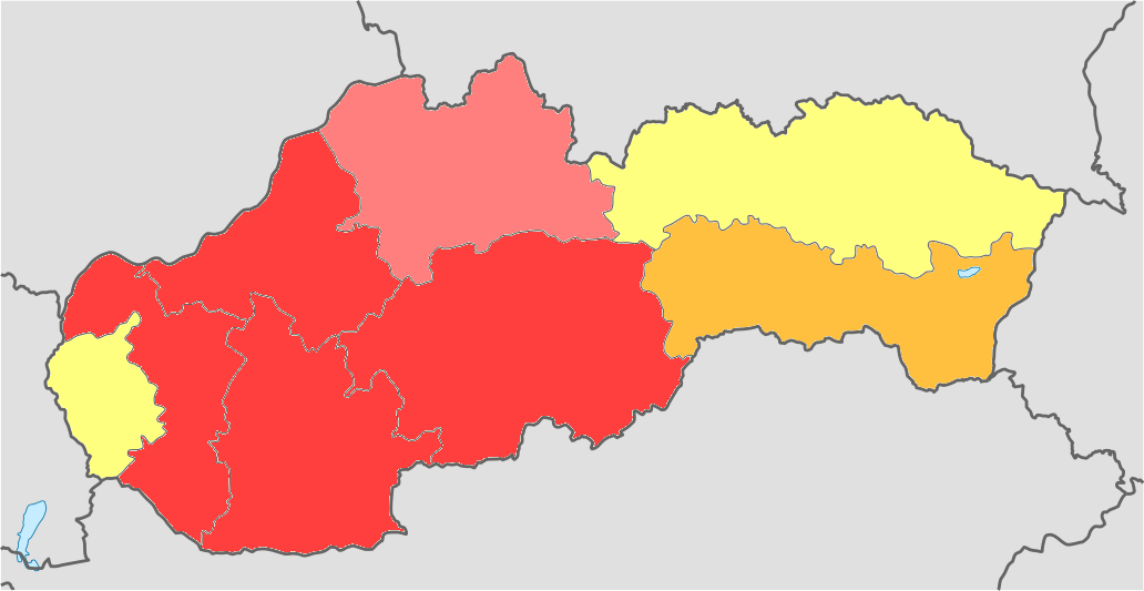 Data is from Eurostat